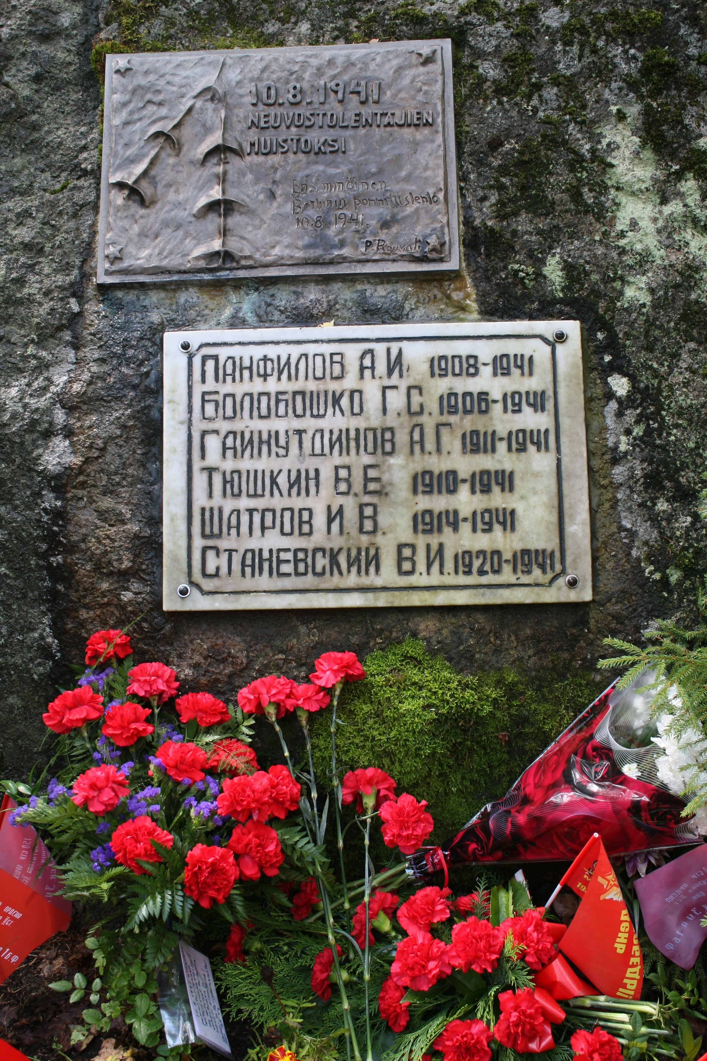 A war memorial and gravesite in Lapinjärvi, Finland, dedicated to the crew of a Soviet Petlyakov Pe-8 heavy bomber that crash-landed here while taking part in the first Soviet bombing raid on Berlin, 10-11 August 1941.